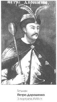 Hetman Petro Doroshenko